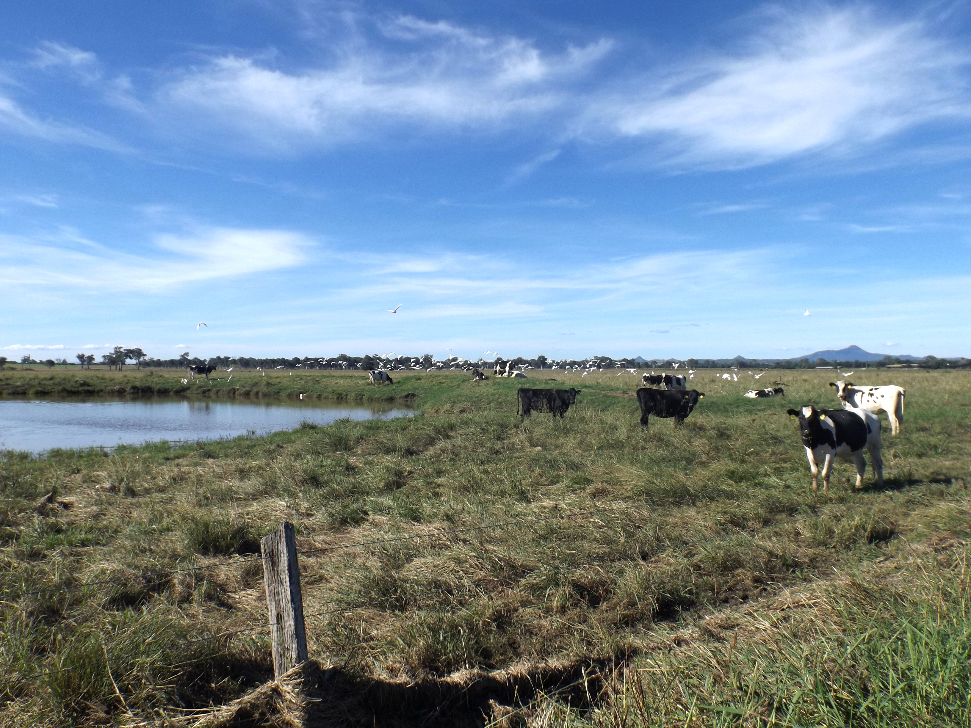 Photo of paddocks along Kengoon Road at Silverdale, Scenic Rim Region, Queensland, Australia.